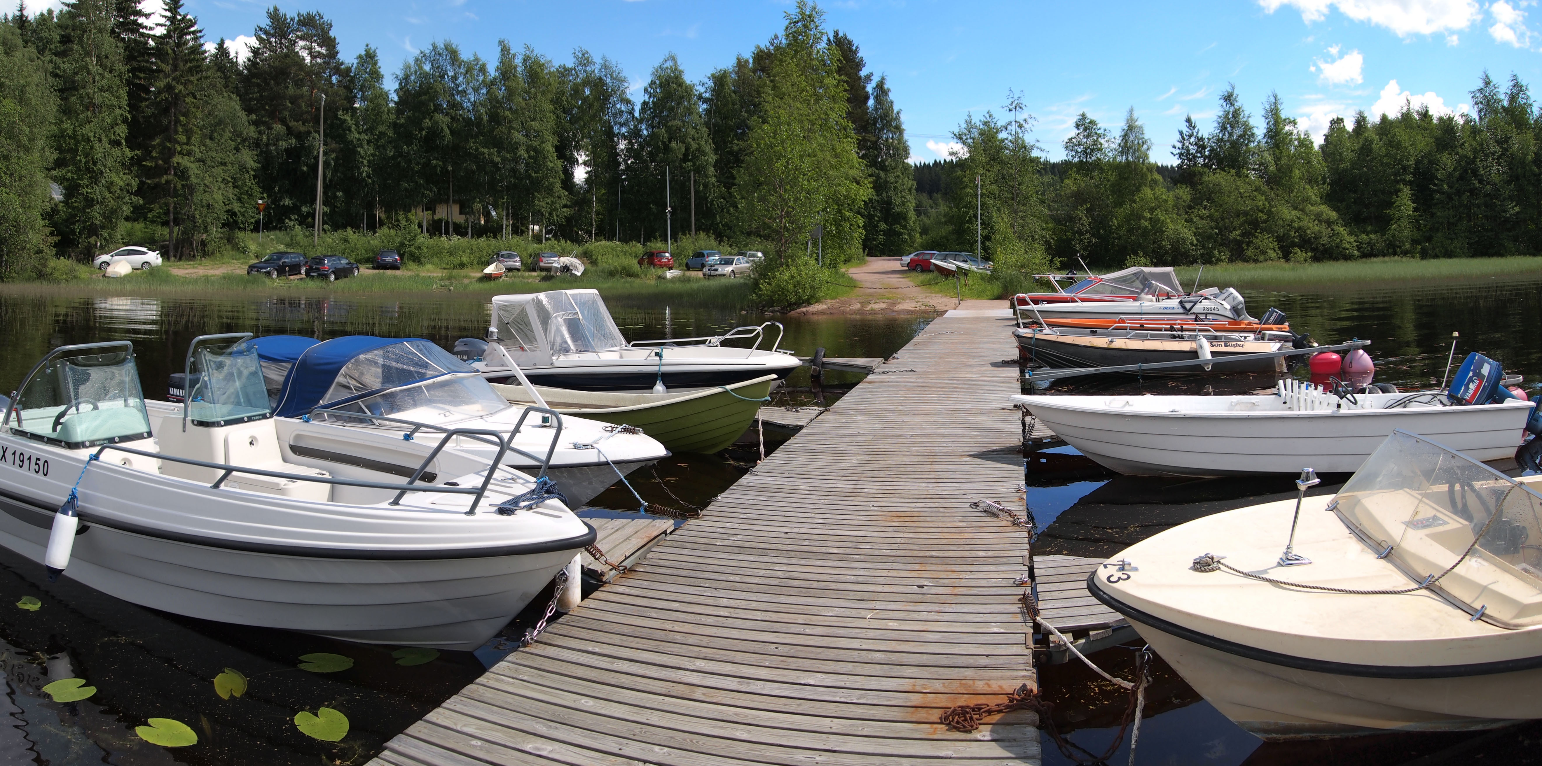 Harbour on bay Hyrtölänlahti in lake Muuratjärvi.